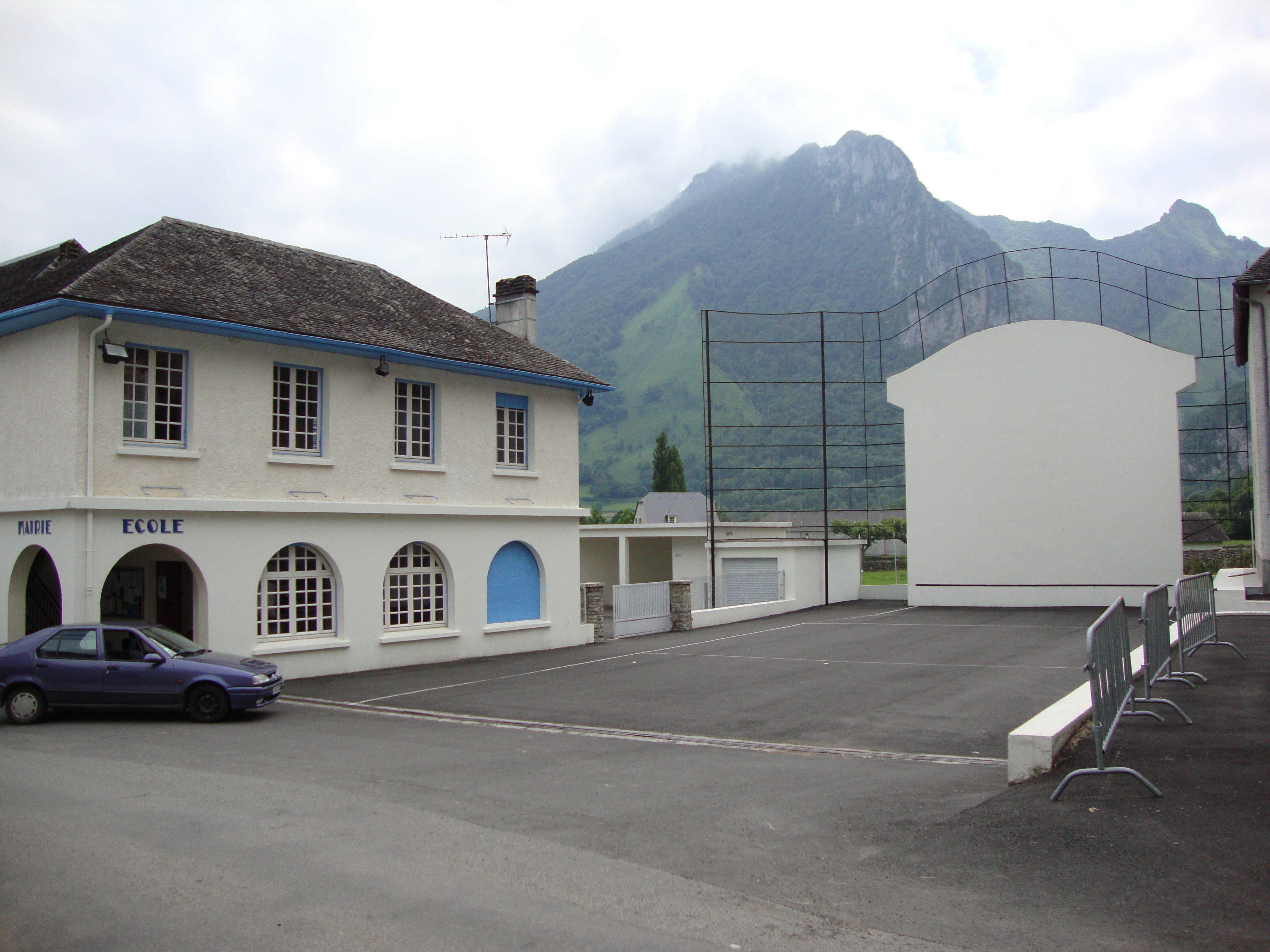 Lées (Lées-Athas, Pyr-Atl, Fr) town hall - school and pelota court.